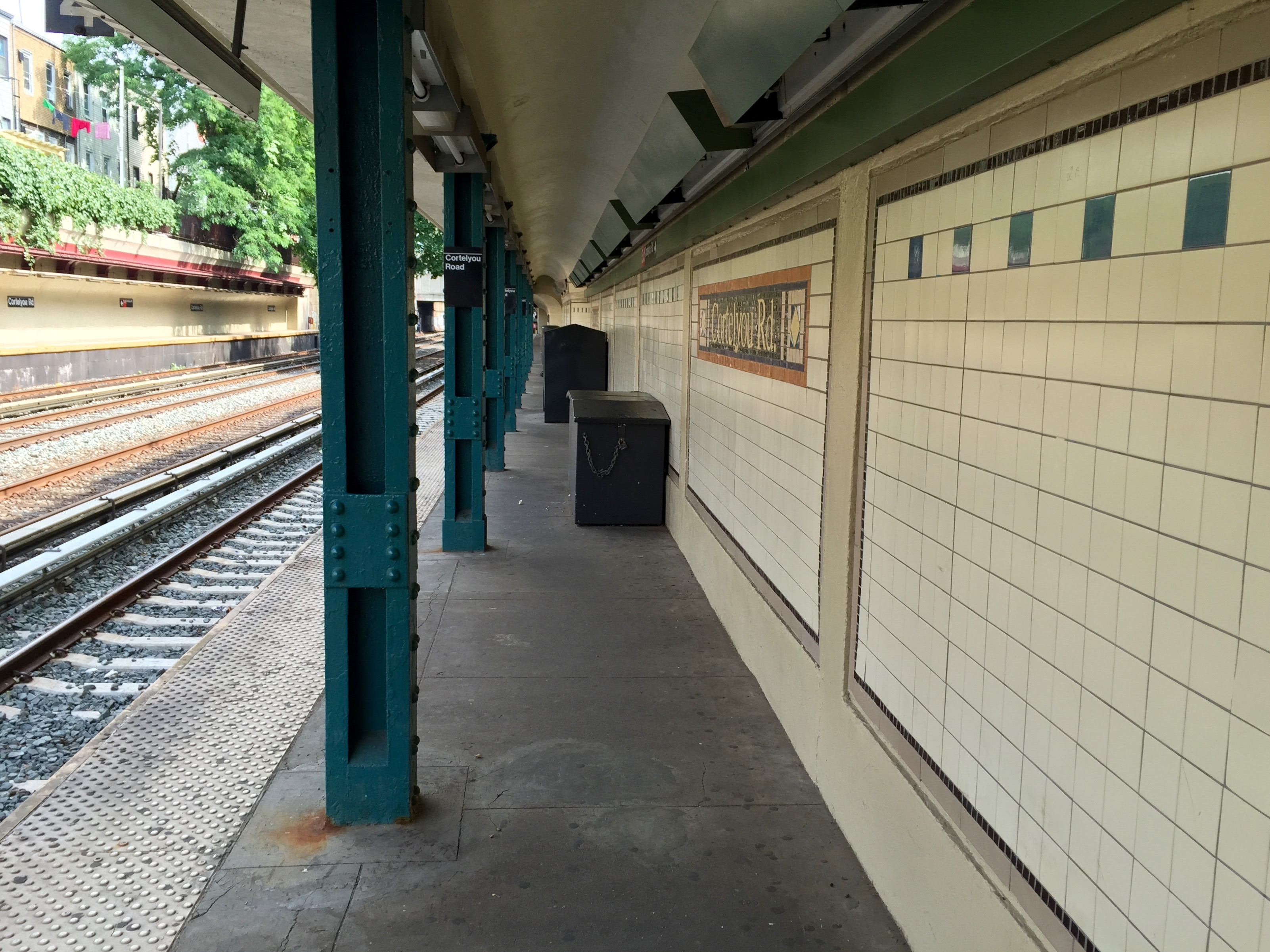 Coney Island bound platform at the Cortelyou Road Q station.